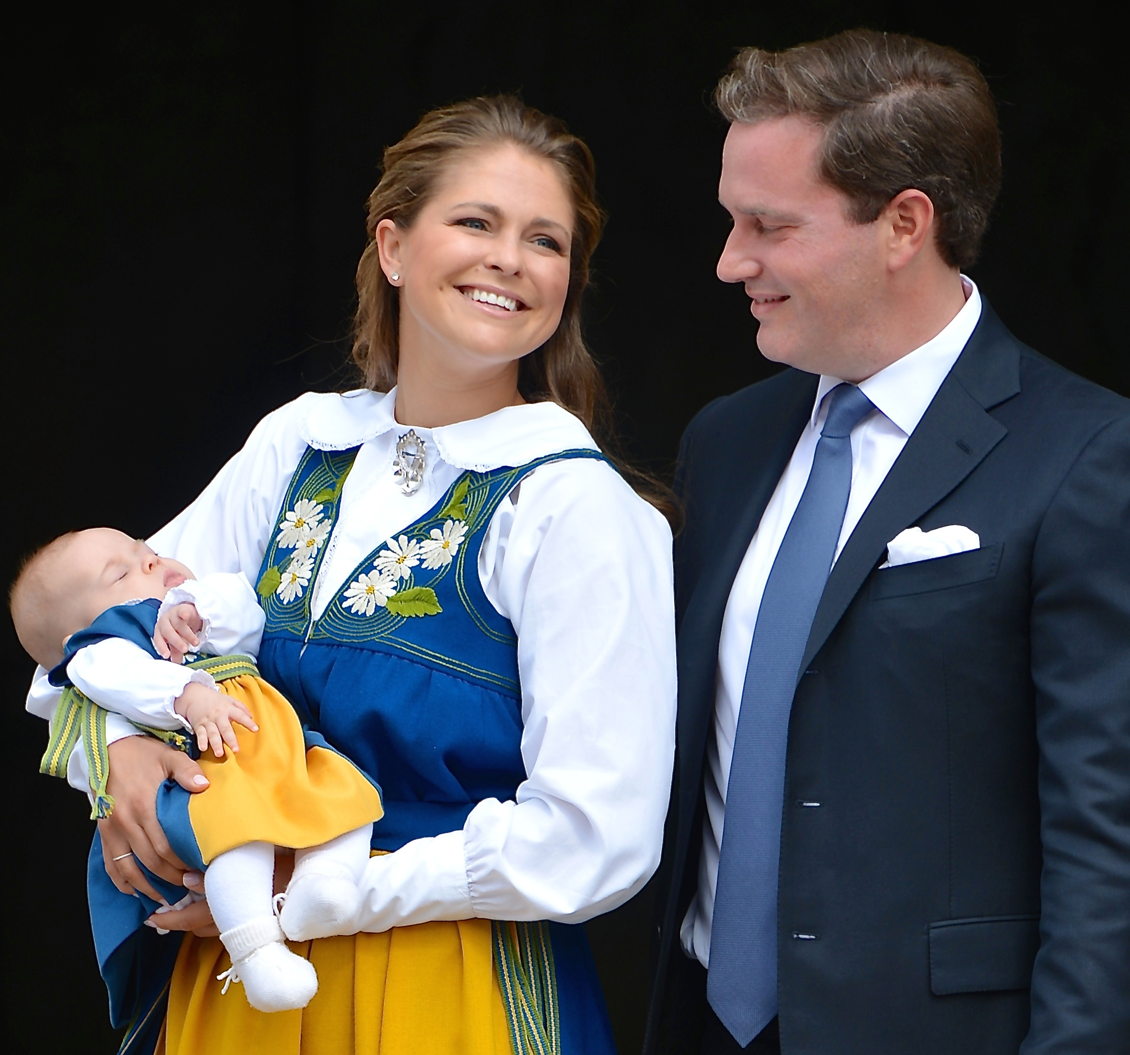 Princess Leonore, Princess Madeleine and Christopher O’Neill at National Day 2014.